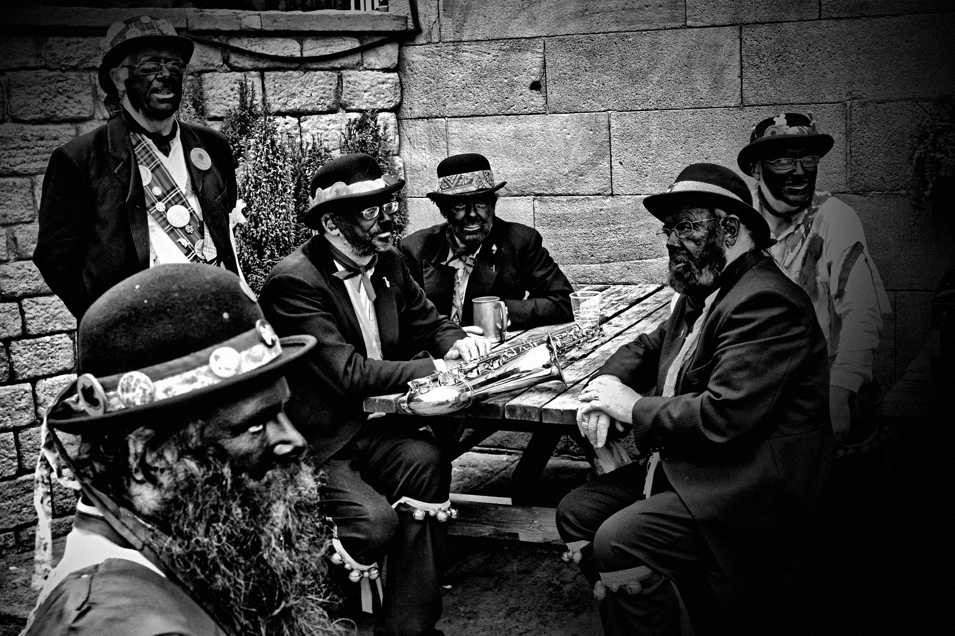 Silurian Border Morris Men outside the Commercial Inn in Saddleworth, UK.